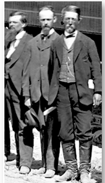 Photograph. Title: 224 Engineers of U.P.R.R. at the laying Of the Last Rail Promontory (Scratched on negative) Image Description: See title. Number 151 is also scratched on negative. Physical Description: "Imperial Plate" collodion glass negative, 10"X13 ". Sub. Cat.: Transportation -- Railroads